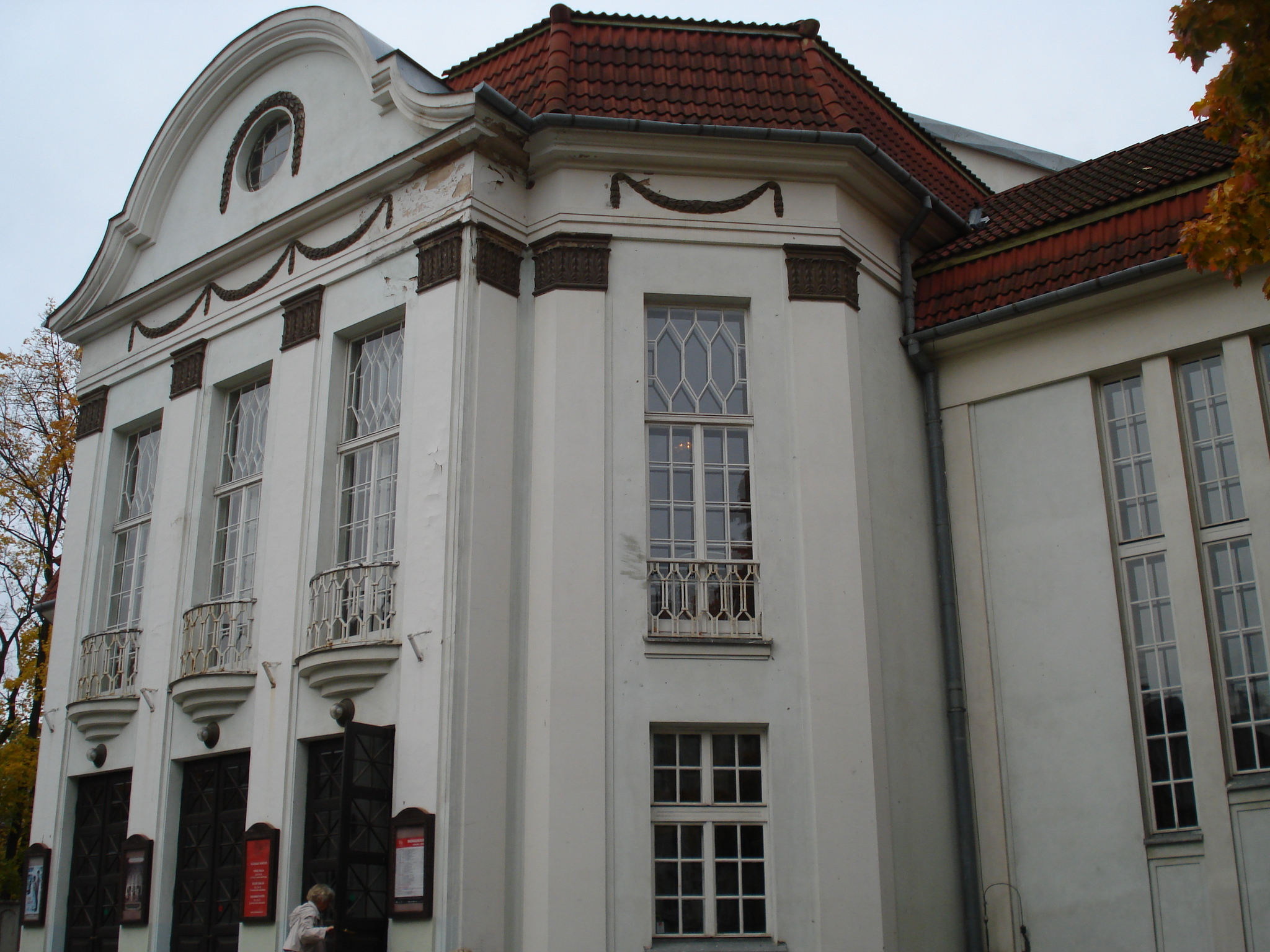 Teater Vanemuine Väike Maja, Vanemuise 45a: former German theatre, today a small hall of the Theatre "Vanemuine".